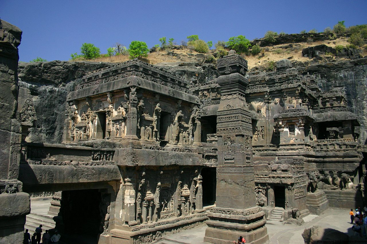 Ellora caves. Cave 16. A rock bridge connects Nandi Mandap to the center temple.